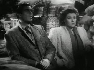 Cropped screenshot of Walter Pidgeon and Greer Garson from the trailer for the film The Miniver Story